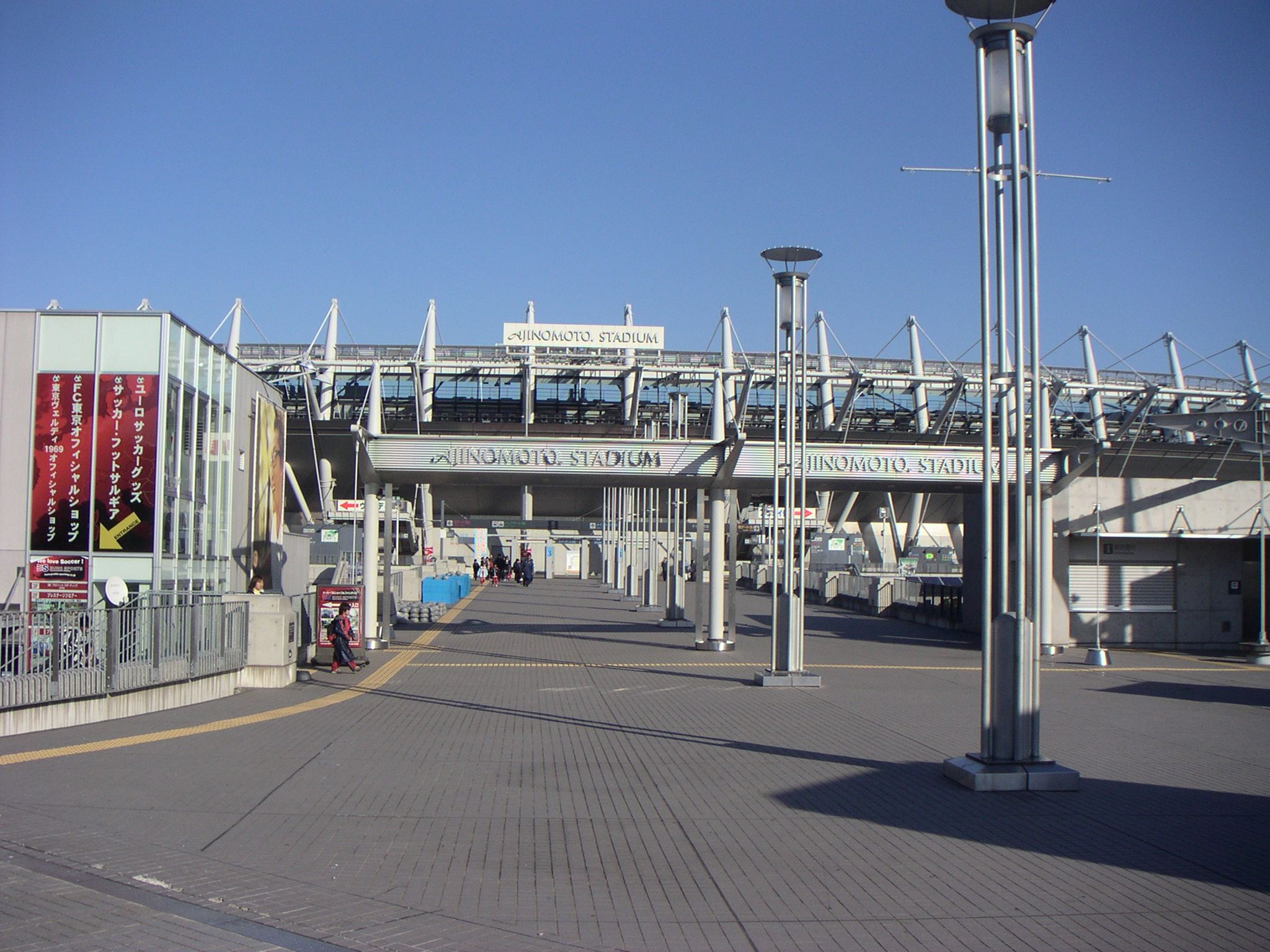 Main gate of Ajinomoto Stadium, Chofu, Tokyo, Japan